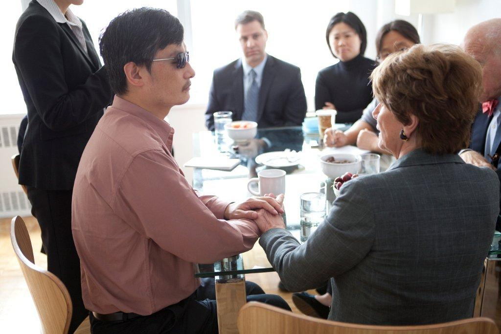 Rep. Nancy Pelosi met with Chinese lawyer and human rights activist Chen Guangcheng in New York